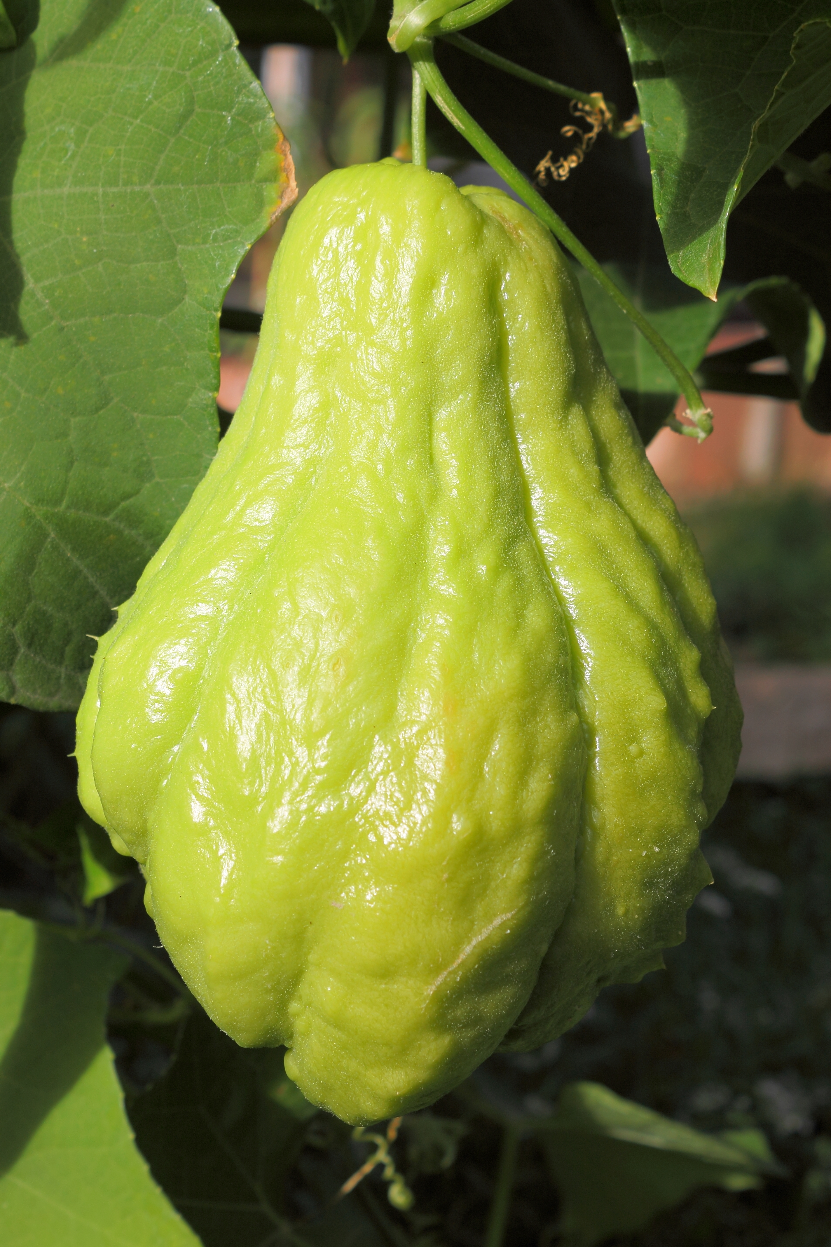 Chayote (Sechium edule) is an edible plant belonging to the gourd family Cucurbitaceae, along with melons, cucumbers and squash. Globally it is known by many names including christophene or christophine, cho-cho, cidra (Antioquia, Caldas, Quindio and Risaralda regions of Colombia), guatila (Boyacá and Valle del Cauca regions of Colombia), centinarja (Malta), sousou or chou-chou (Mauritian Creole), chuchu (Brazil), pimpinela (Madeira), pipinola (Hawaii), tayota (Dominican Republic), mirliton (Haitian Creole), pear squash, vegetable pear, chouchoute, choko, güisquil (Guatemala, El Salvador), pataste (Honduras), dashkush (Manipuri),iskut (Mizo), su su (Vietnam). Its tuberous and edible root is called chinchayote in Mexico and ichintal in Guatemala.